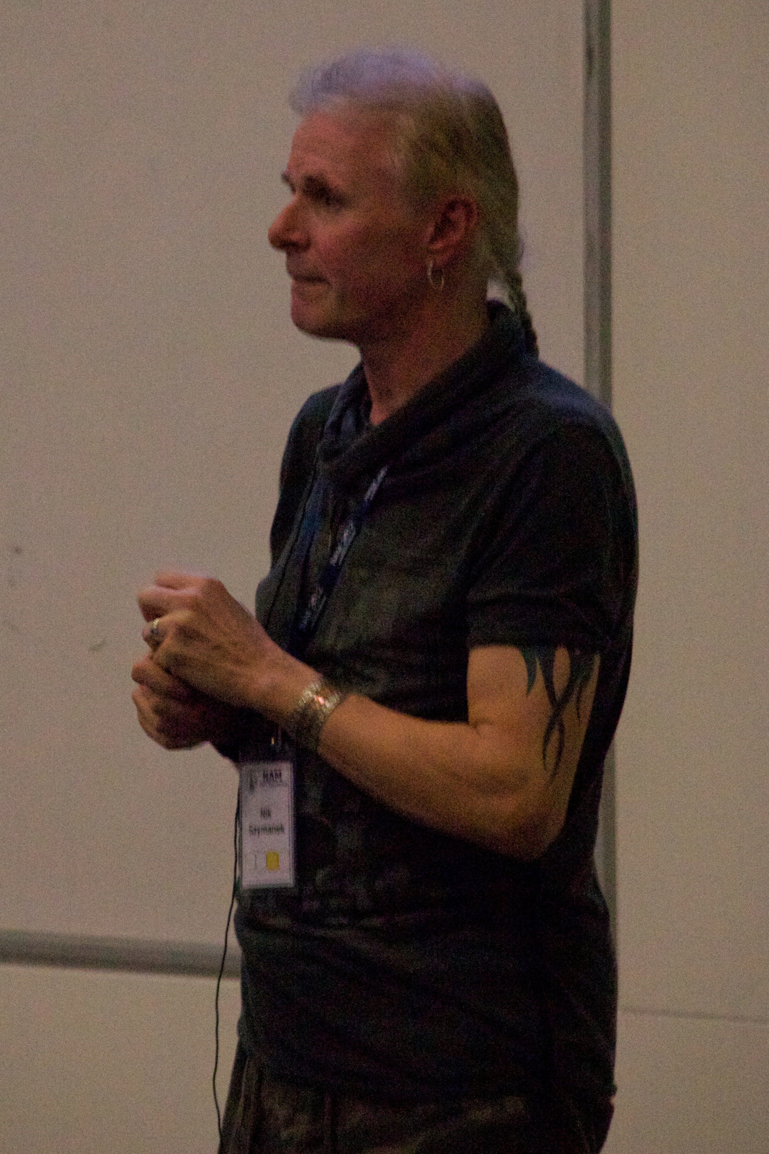 Nik Szymanek at RAS NAM 2012 in Manchester